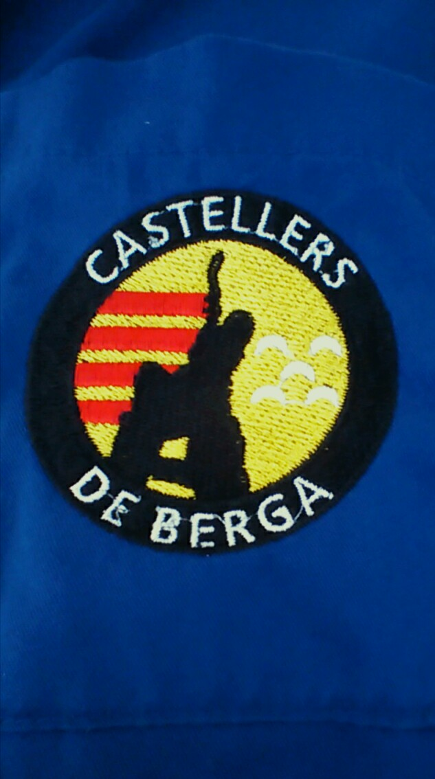 Castellers de Berga shirt with logo.